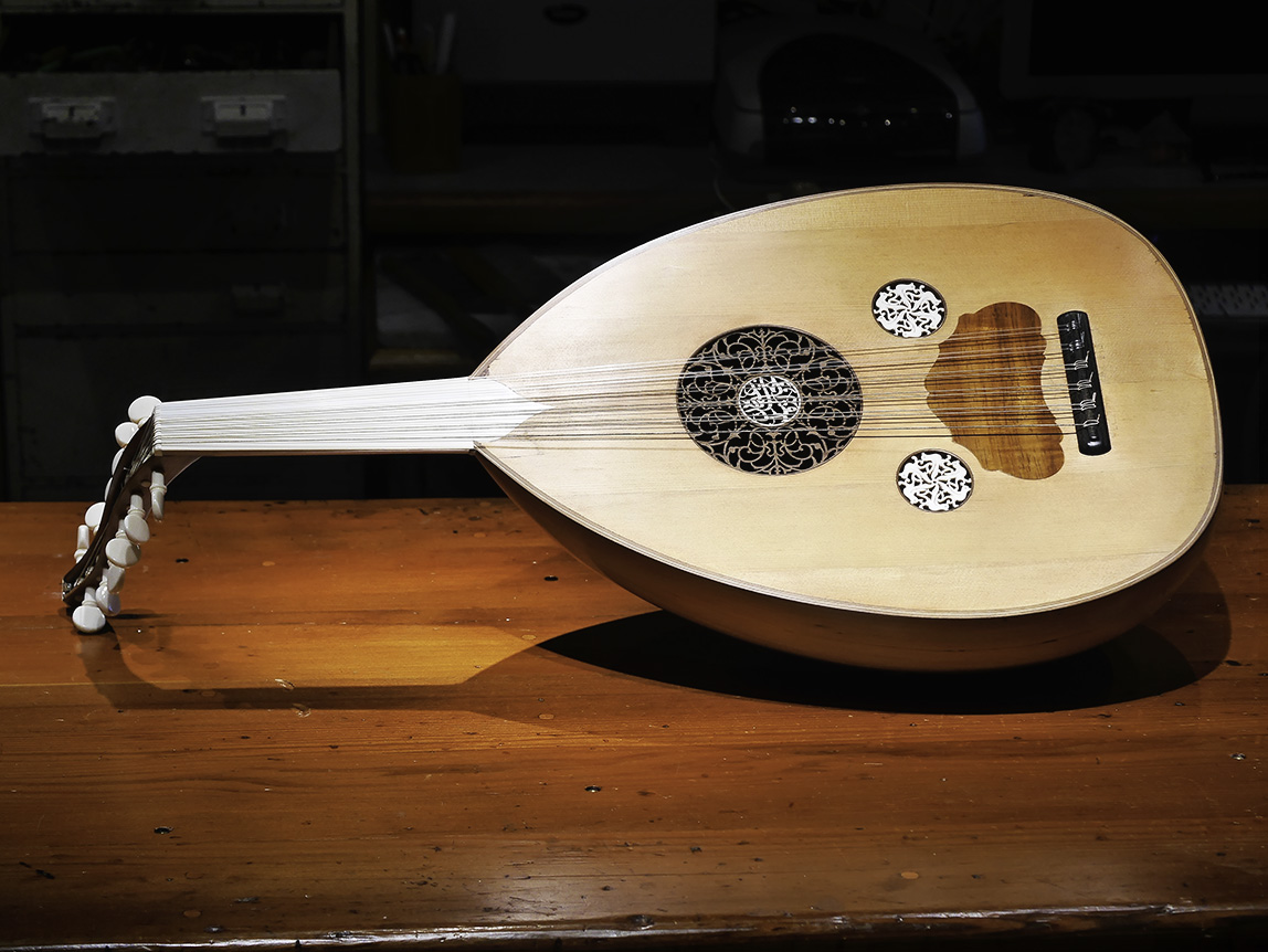 NAHAT OUD